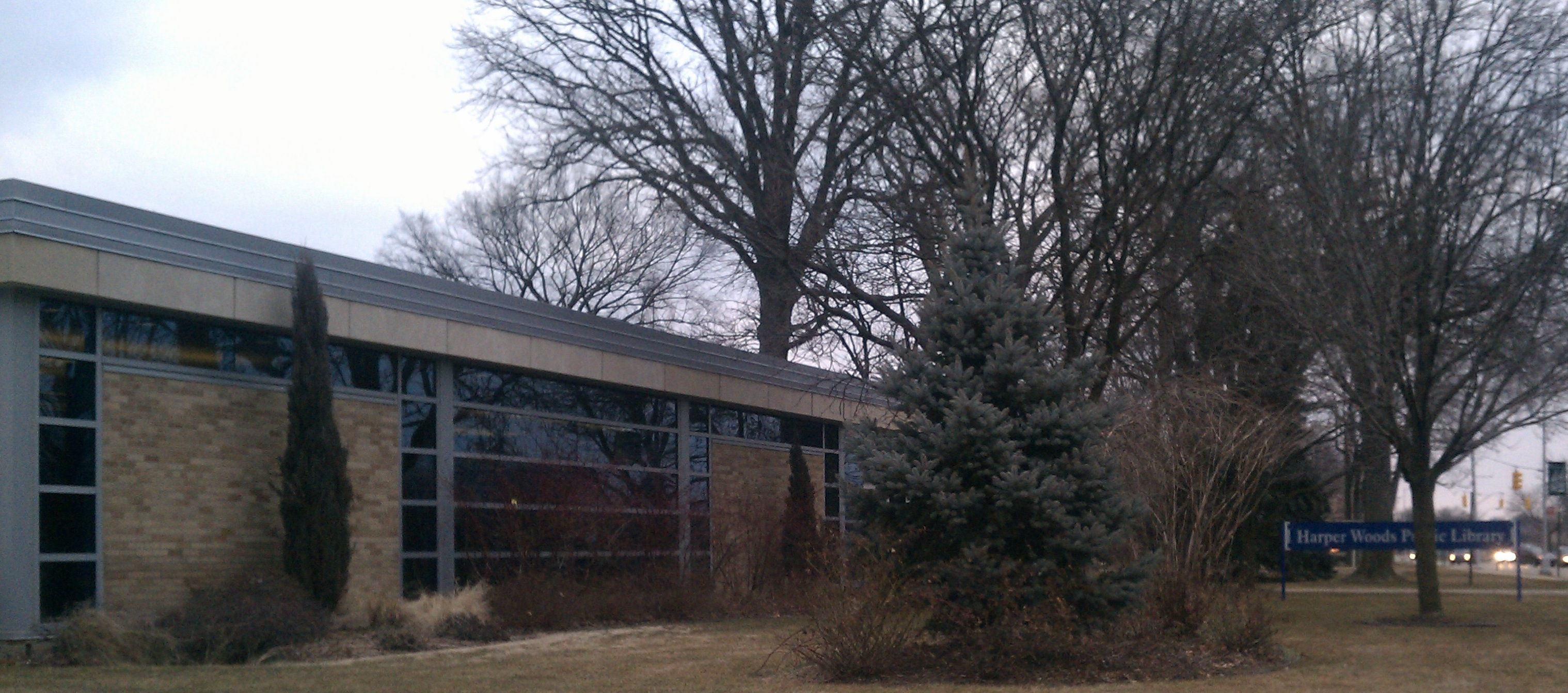 The Harper Woods Public Library, in Harper Woods, Michigan